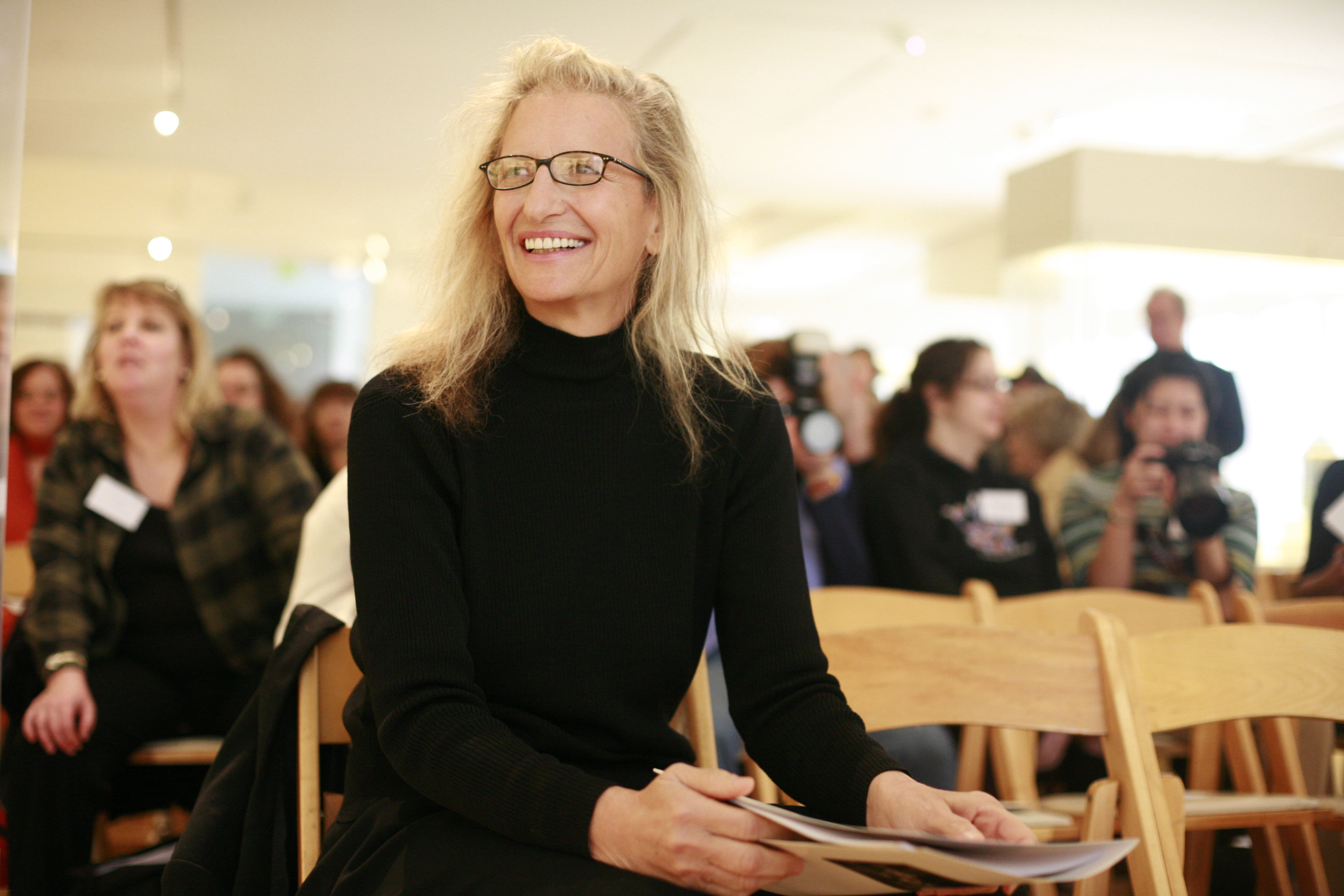 Annie Leibovitz is one of the most famous photographers alive today. She shoots for magazines, was Rolling Stone's photographer, and has made images of many of the world's most famous people.